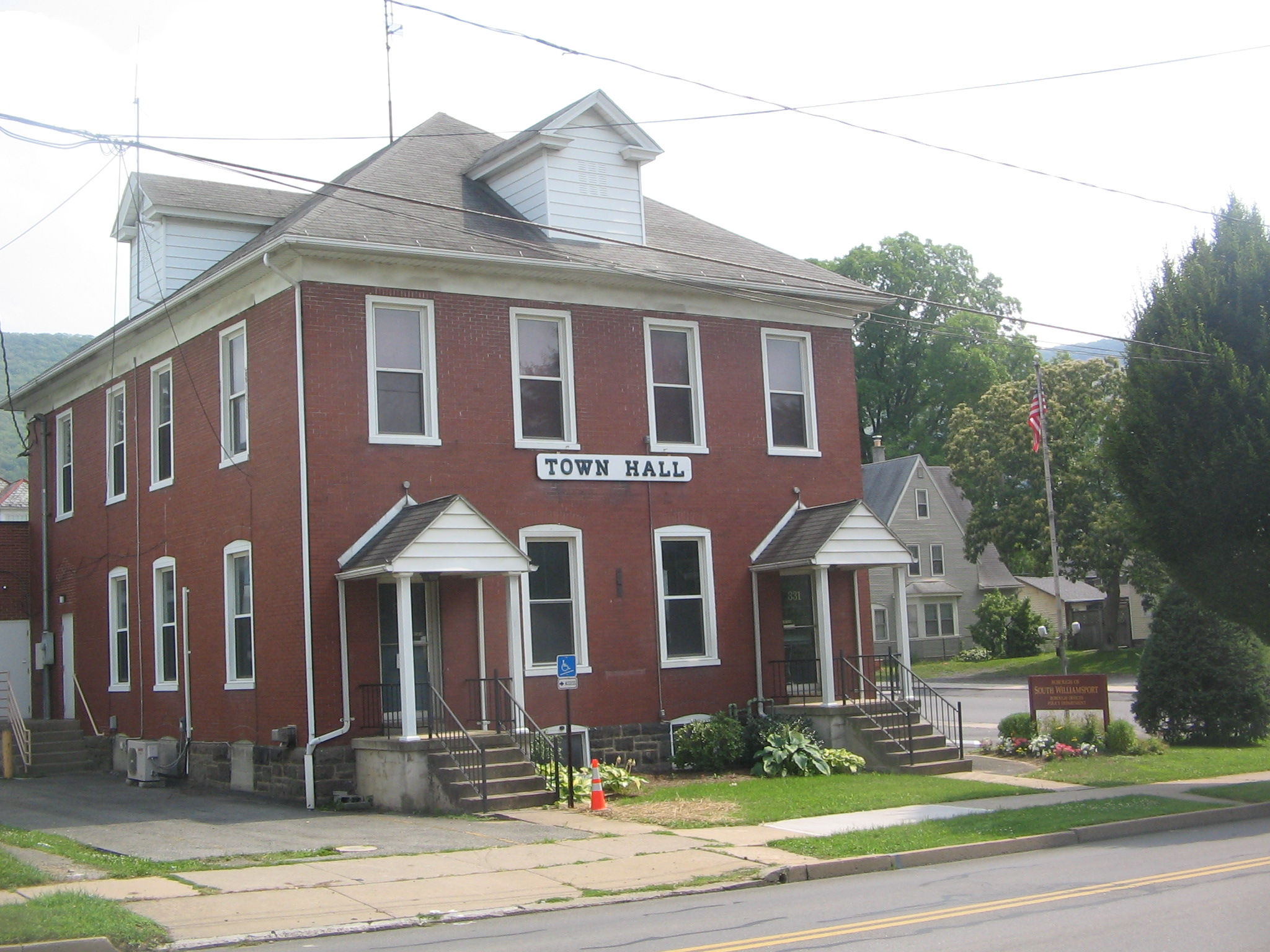 Borough Hall on West Southern Avenue in South Williamsport, Lycoming County, Pennsylvania in the United States.